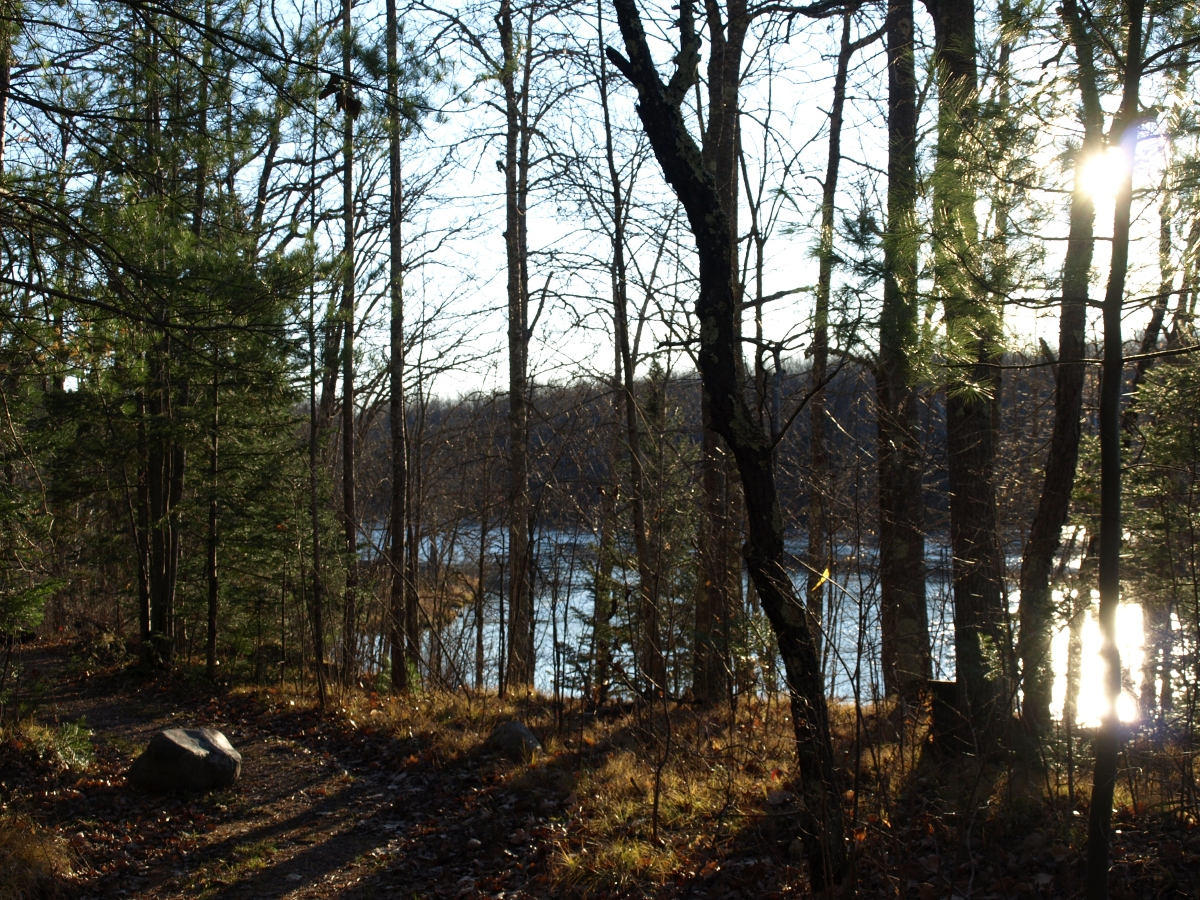 Newwood County Park, site of historic CCC camp, Lincoln County, Wisconsin.